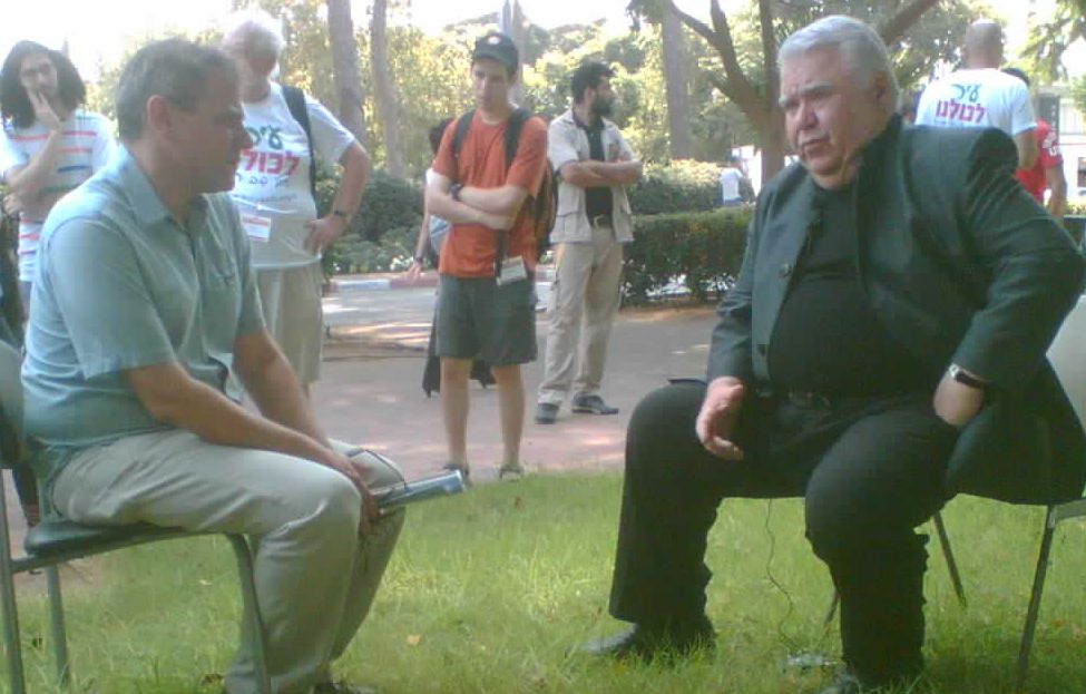 Jaime Lerner and Nitzan Horovitz